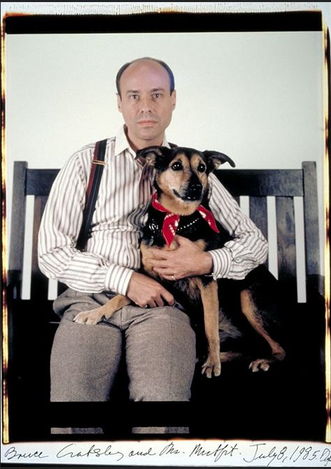 Bruce Cratsley And Mr Muffit, Elsa Dorfman. The author of the article wrote to the photographer (Elsa Dorfman), requesting use of the portraits she did of Bruce Cratsley, and these images were provided as the primary means of visual identification of the subject of the article. This is a photograph (taken by the artist) of the main subject of the article and also illustrates the artist's life (his lover, his dogs). The subject is unique, and it cannot be replaced with text or free content media. I have the original email in which the phographer, retired from active work, is allowing me the use of these specific images. Do not crop images, they are art work thought like this